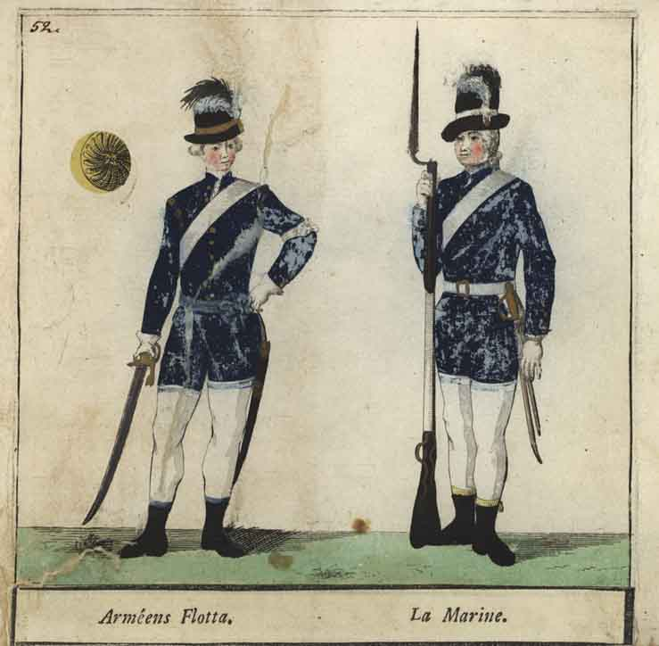 Royal Swedish Archipelago Fleet uniform model 1779